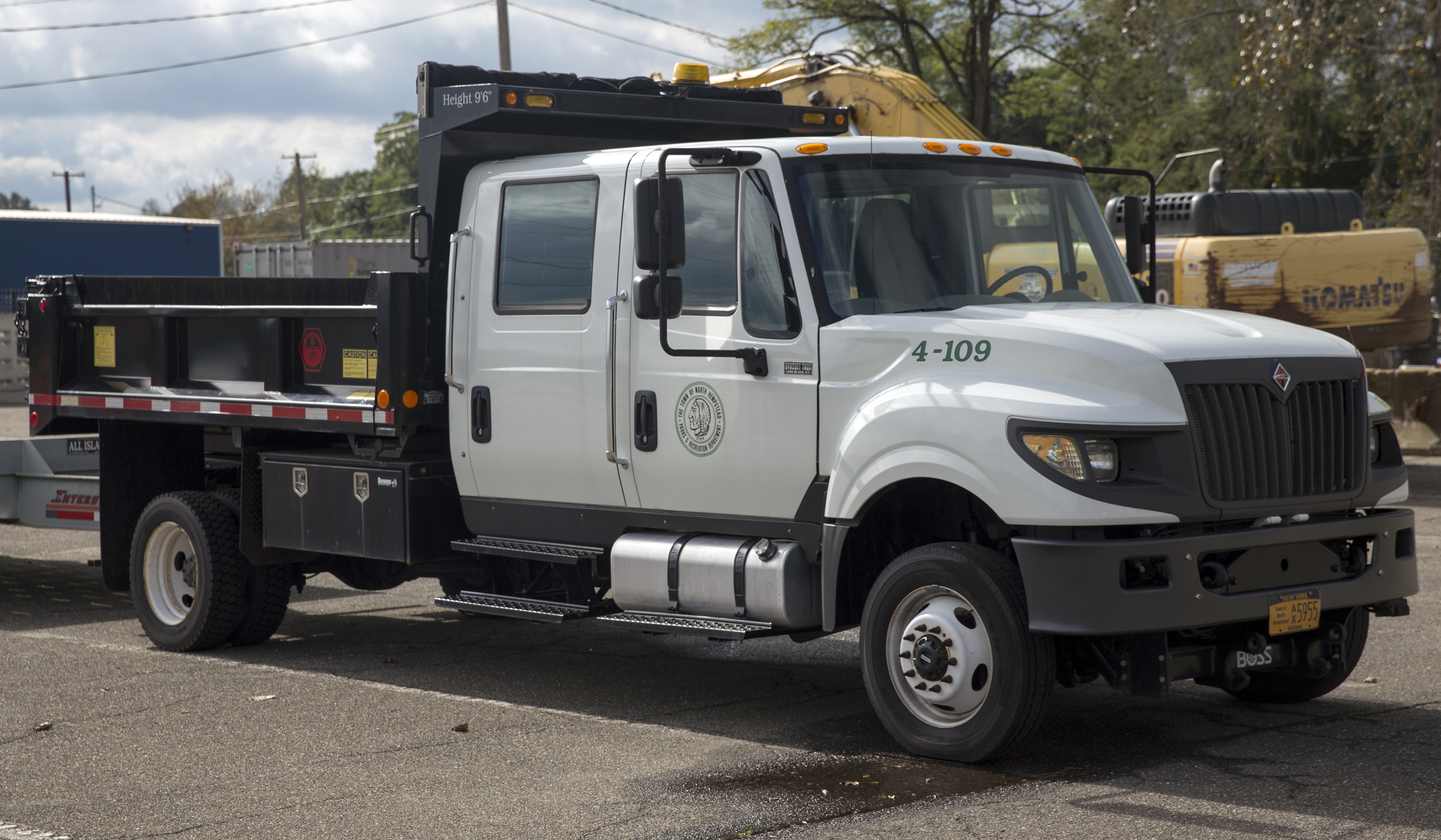 A 2016 International TerraStar crew cab truck, belonging to the Town of North Hempstead Parks & Recreation Department. These were taken out of production in December 2015, so this must be a rather late example.